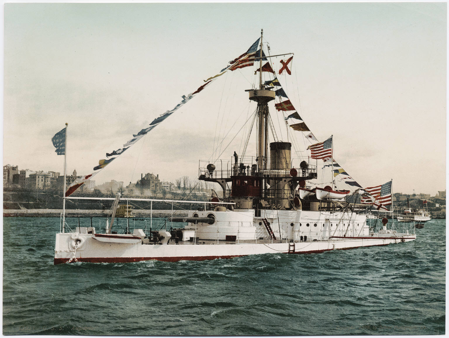 A photochrom postcard published by the Detroit Photographic Company.